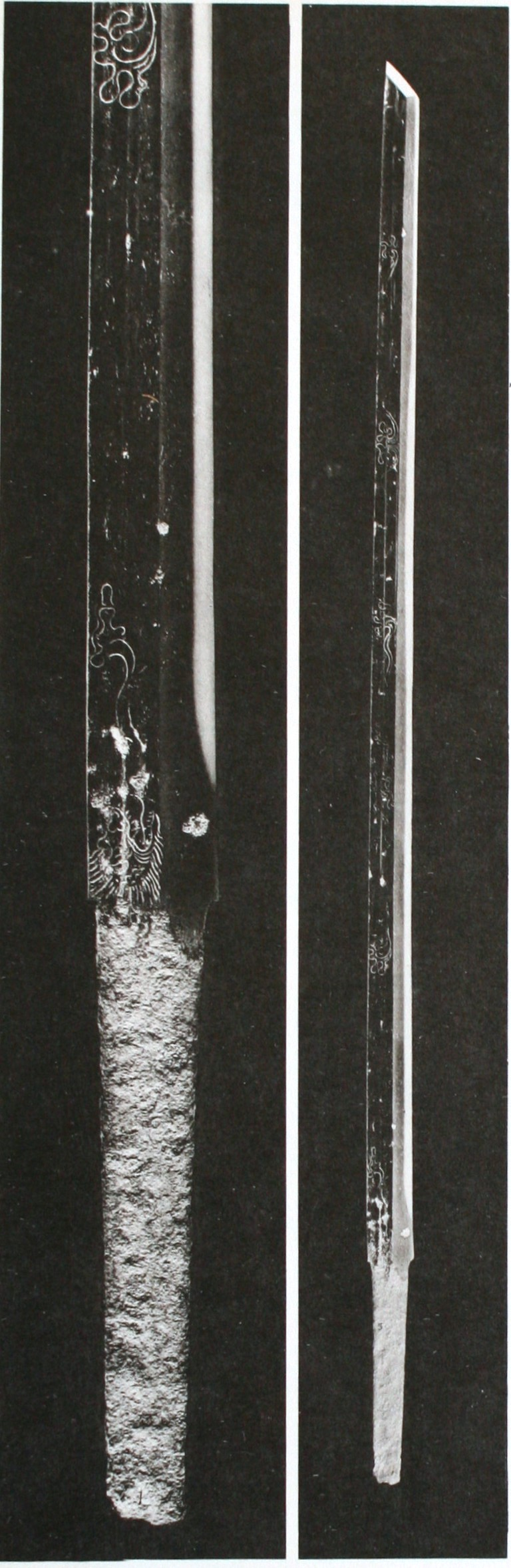 Great Bear sword or Seven Stars Sword, The sword contains a gold inlay of clouds and seven stars forming the Great Bear constellation. According to a document at Shitennō-ji, this sword was owned by Prince Shōtoku., Asuka period, 7th century , 62.1 cm (24.4 in) Osaka Shitennō-ji, Osaka, Japan